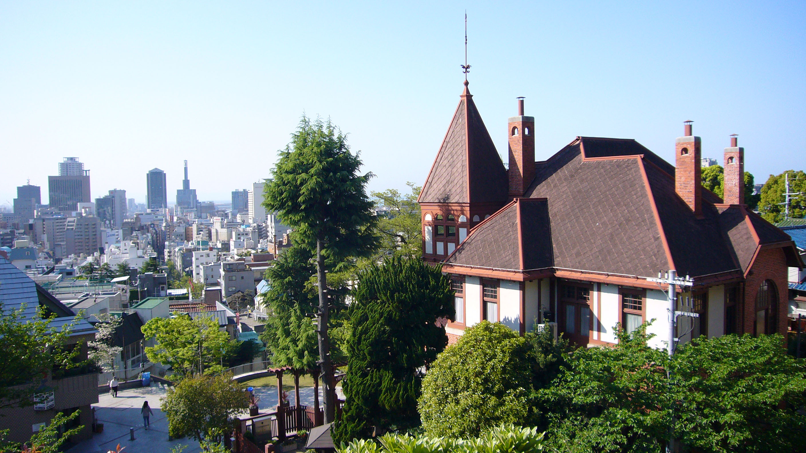 Old Thomas house in Kobe, Hyogo prefecture, Japan